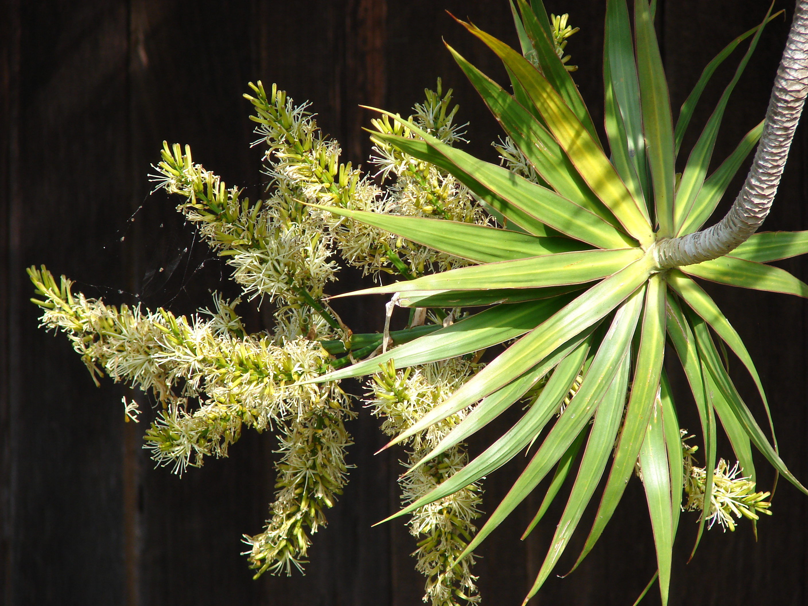 Dracaena marginata (flowers). Location: Maui, Makawao